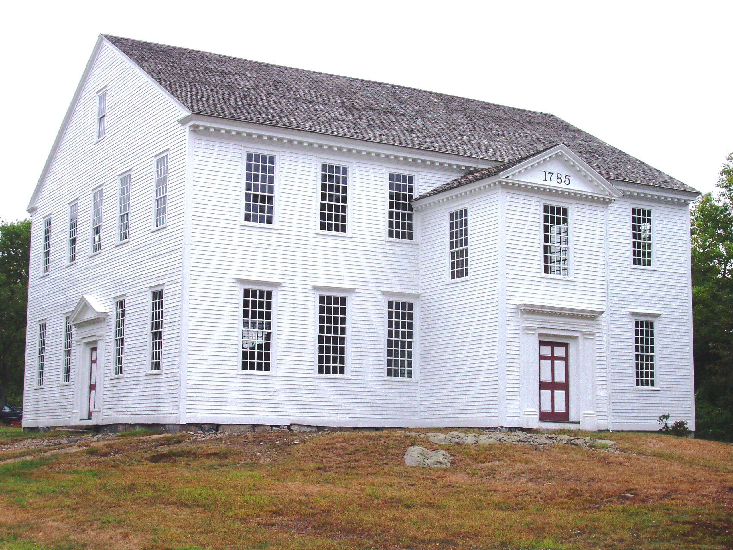 Rocky Hill Meeting House - Amesbury, Massachusetts. Photograph taken by me, September 2005.